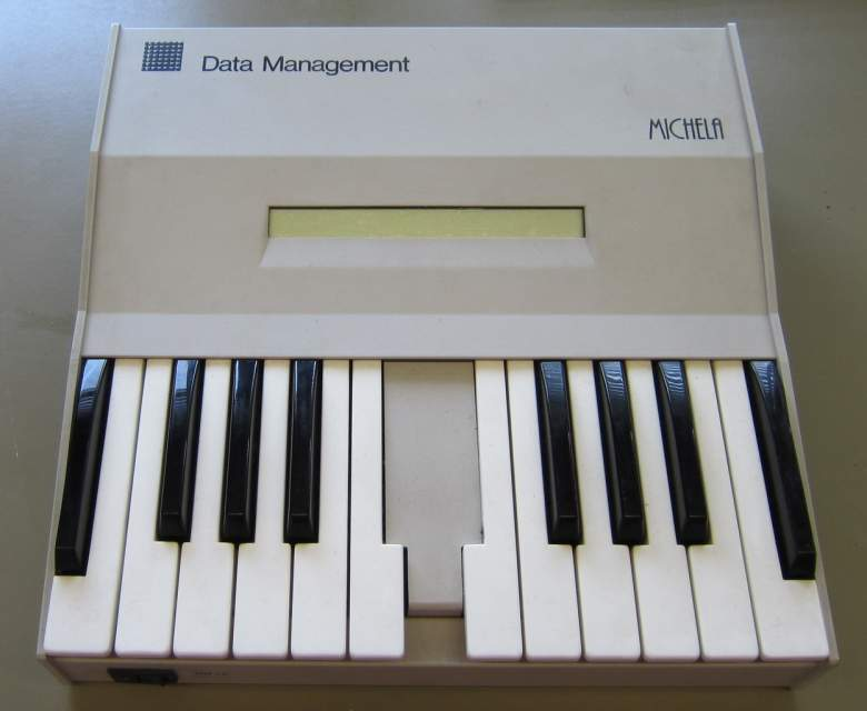 Michela stenotype